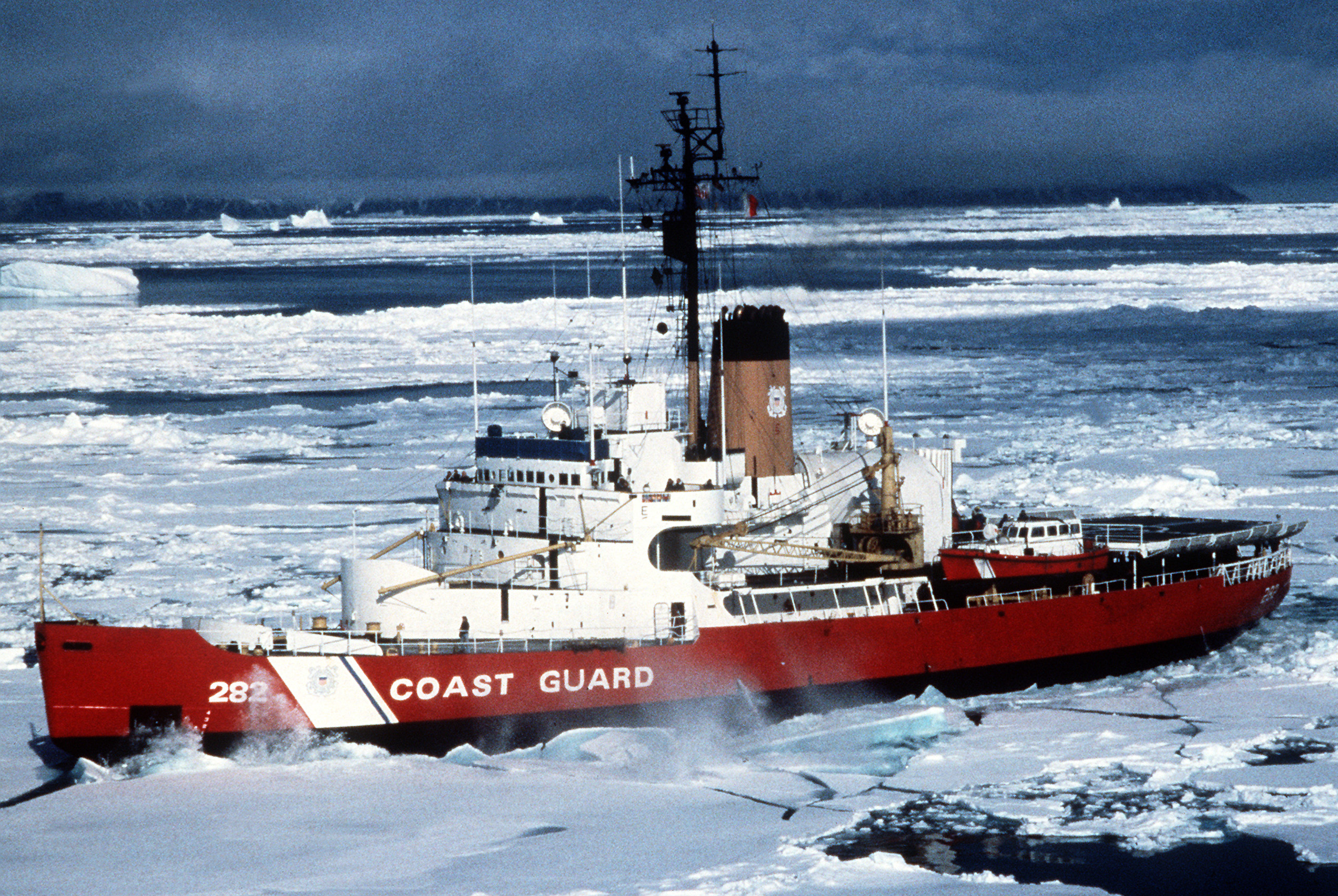 An elevated port bow view of the U.S. Coast Guard icebreaker NORTHWIND (WAGB-282) breaking through ice packs while participating in a joint Denmark-U.S. musk oxen relocation operation. Note the small craft, just aft of funnel, this is the Arctic Survey Boat or Greenland Cruiser.